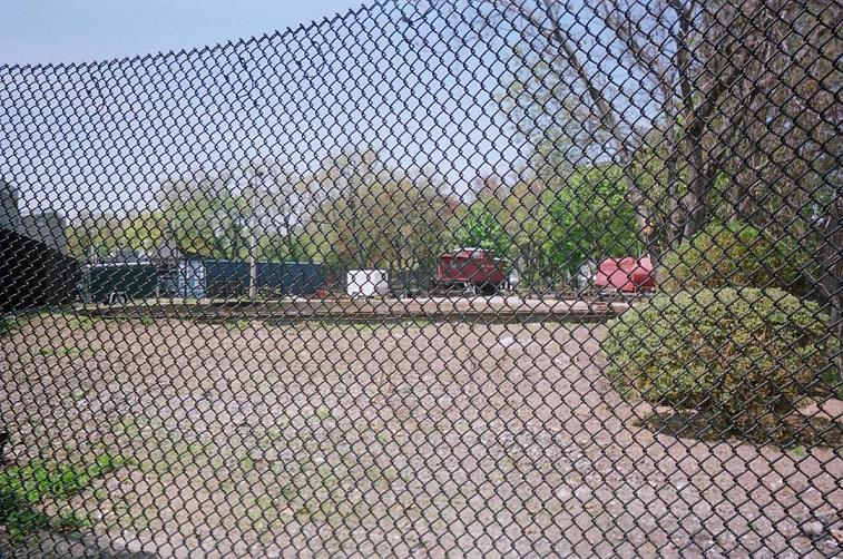 View of historic Oyster Bay Railroad Station Turntable and railroad cars under restoration behind a chain-link fence, in Oyster Bay, New York. The turntable is listed on the National Register of Historic Places separatley from Oyster Bay (LIRR station)